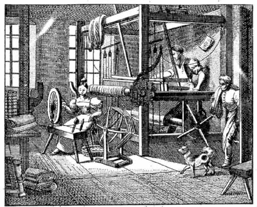 Weaver, beginning of the 19th Century